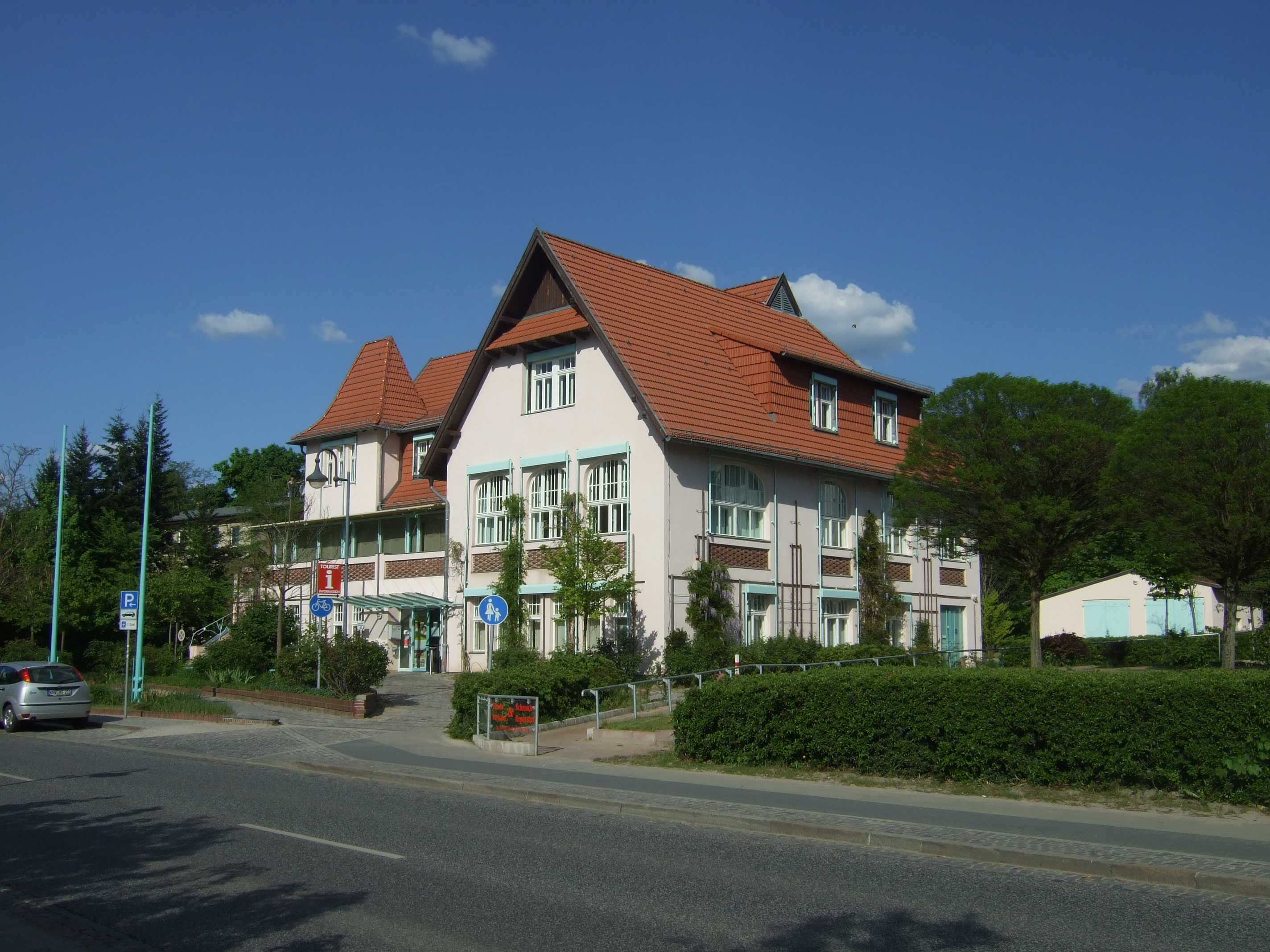 Parish house and registry office Wandlitz, former soviet Commander's office, former Hotel "Rünger" in Wandlitz, Brandenburg, Germany.